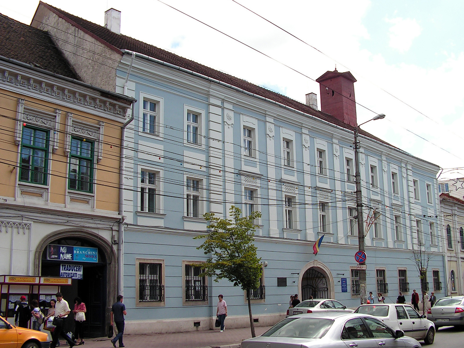 The Redut Palace in Cluj-Napoca (today Ethnographical Museum)